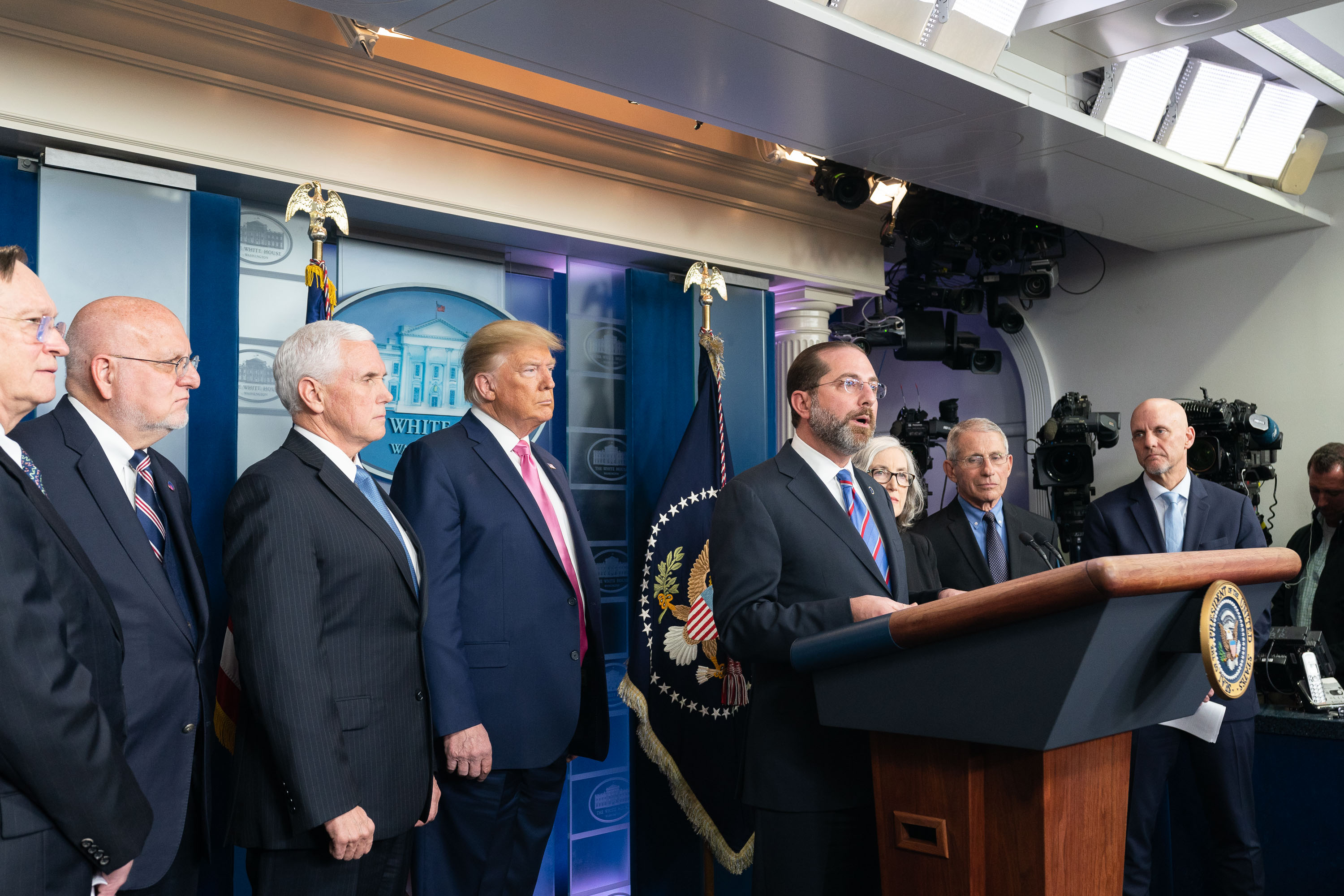 President Donald J. Trump, joined by Vice President Mike Pence, listens as Secretary of Health and Human Services Alex Azar speaks to members of the press Wednesday, Feb. 26, 2020, in the James S. brady Press Briefing Room of the White House. (Official White House Photo by Joyce N. Boghosian)